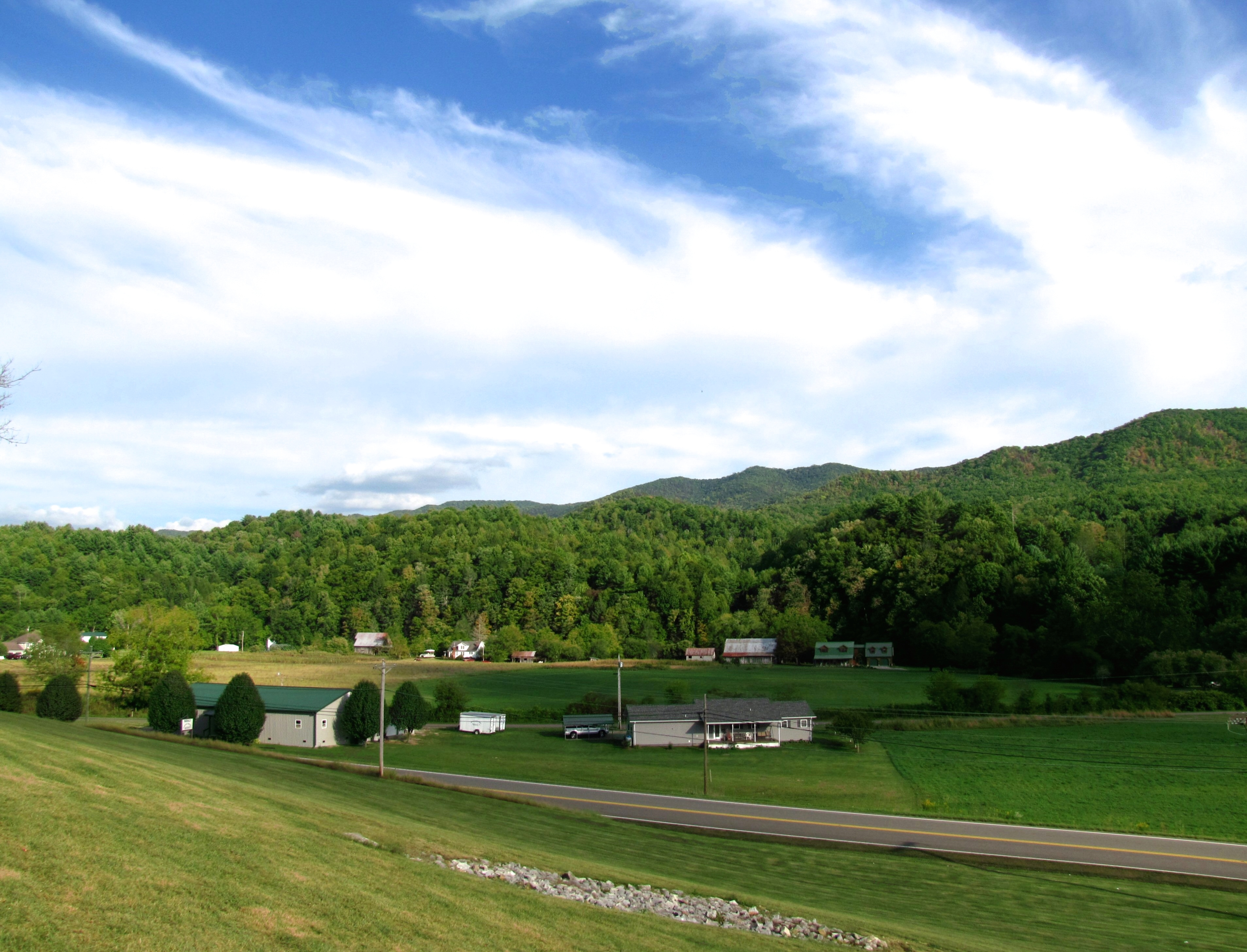 Houses in the Doe Valley community of Johnson County, Tennessee, United States. This view is from the Doe Elementary School parking lot. The road below is Tennessee State Route 67.